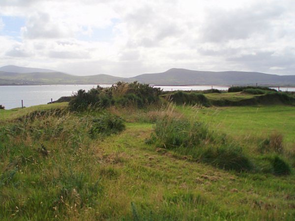 The fort at Dun an Oir (Fort del Oro) The site of an iron age fort. However, it is better known as the location of a bloody slaughter in 1580. Spanish soldiers arrived here to help the Irish in the Desmond rebellion against the English. The English, led by Lord Grey (and Sir Walter Raleigh) slaughtered 600 Spanish and tortured their Irish counterparts before killing them too.